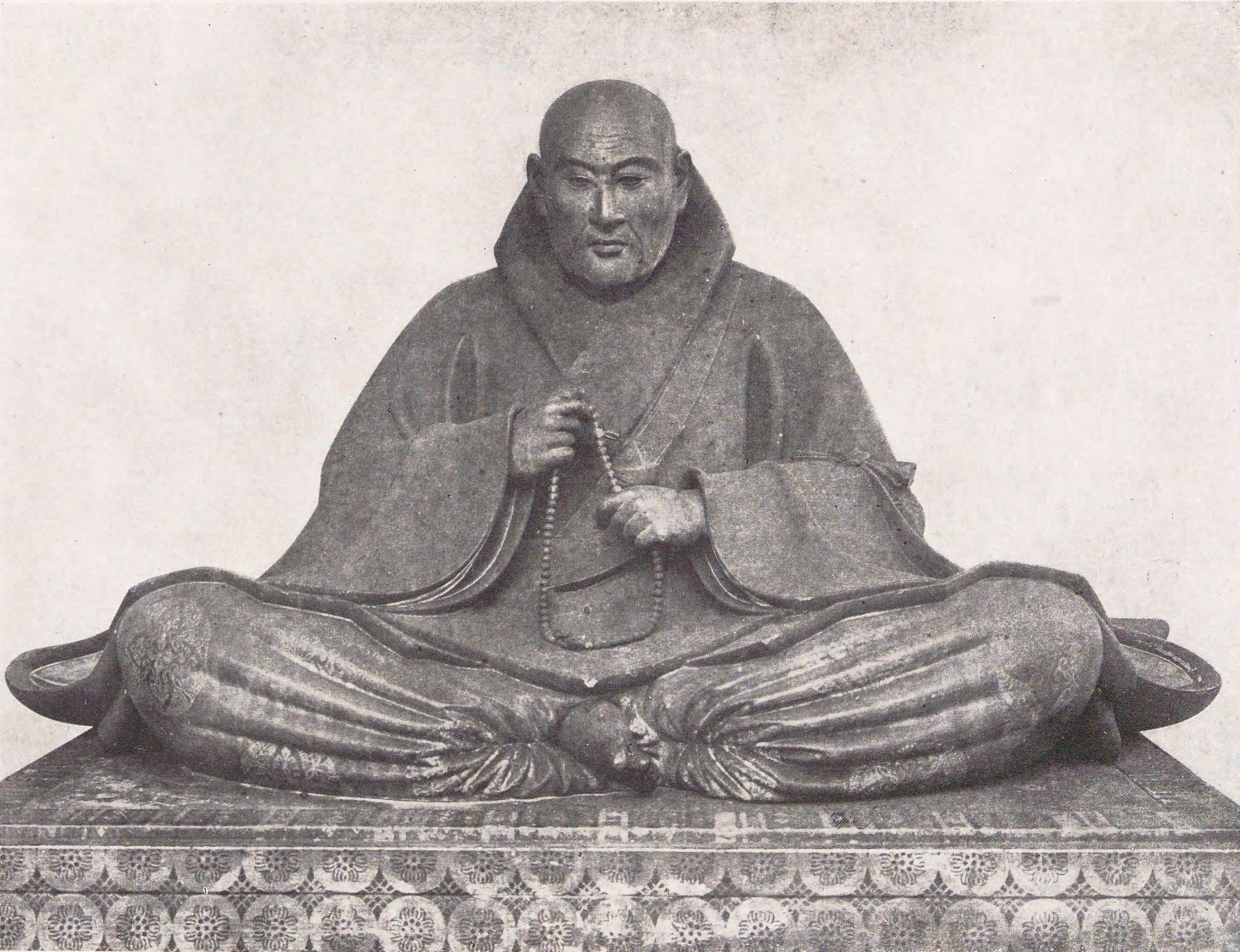 The wood statue of Emperor Go-Shirakawa made in Edo period at Choko-do temple, Kyoto. An Important Cultural Property of Japan.